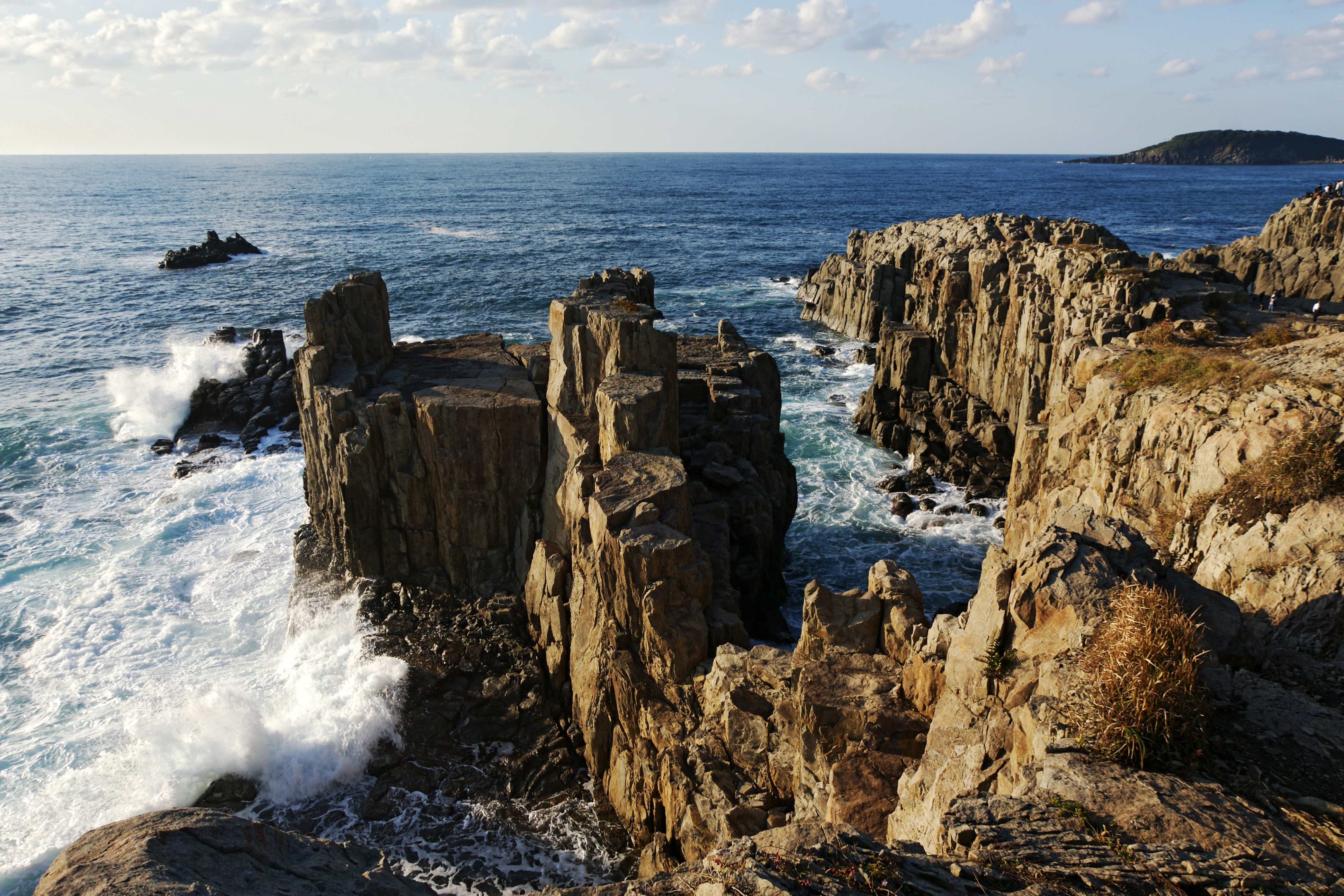 Tojinbo in Sakai, Fukui prefecture, Japan